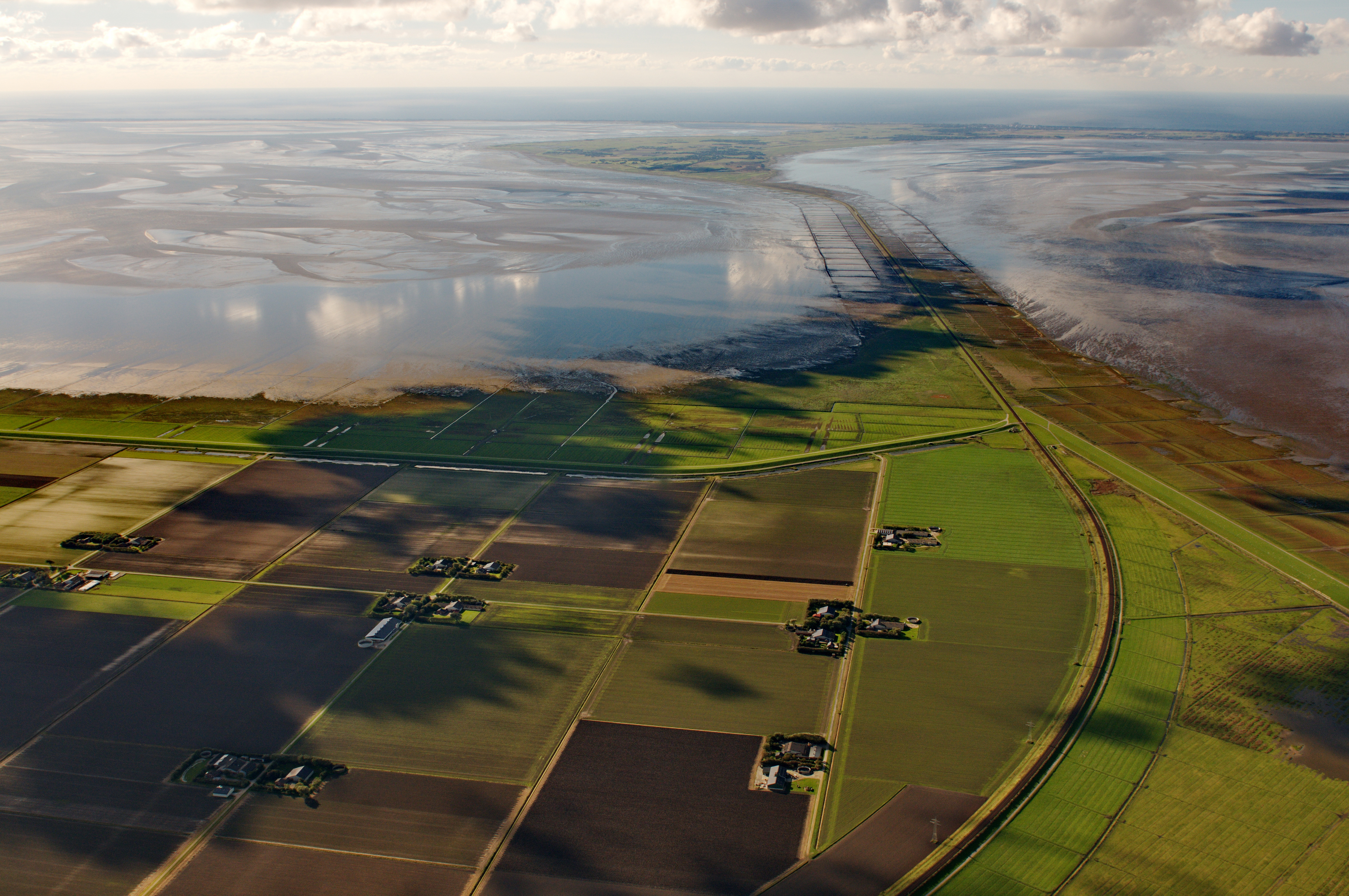 Hindenburgdamm to isle Sylt, Germany